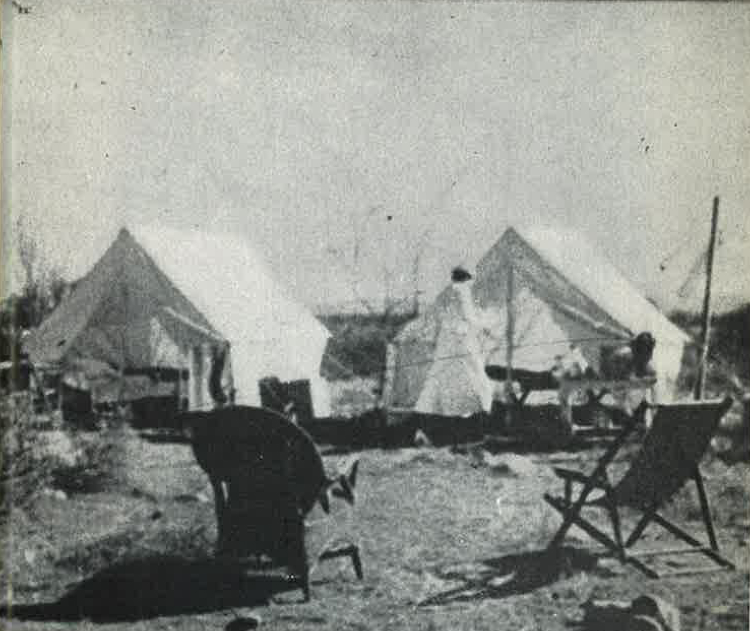 Photograph of the original Los Angeles Sanatorium, consisting of two tents, which eventually became the City of Hope. Image from Golter, Samuel H. (1954). The City of Hope. New York: G. P. Putnam's Sons. Copyright not renewed. Caption: "In the beginning ... two tents (Chapter 2)"